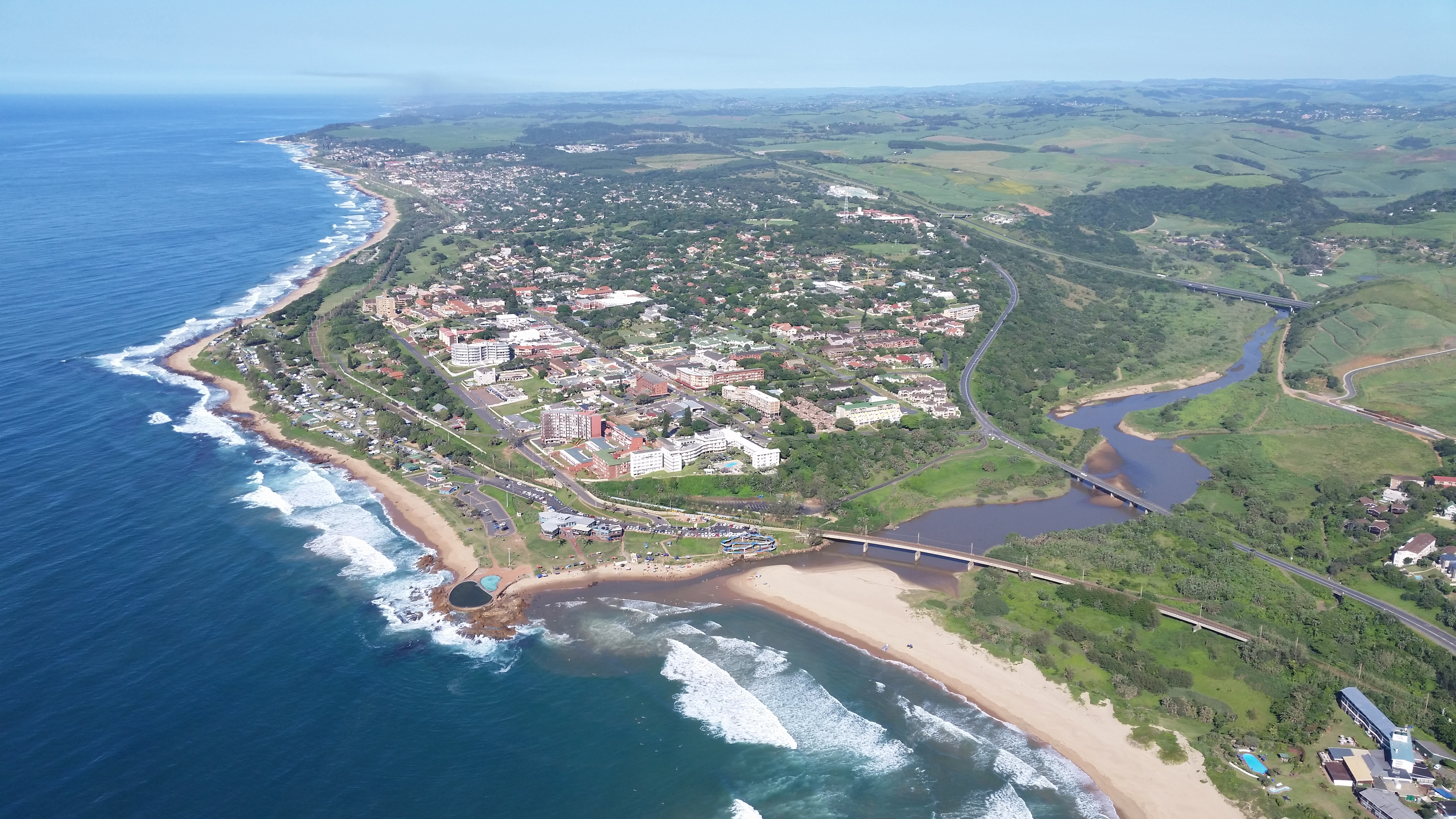 Scottburgh Beach front photographed from a microlight at 1500ft amsl